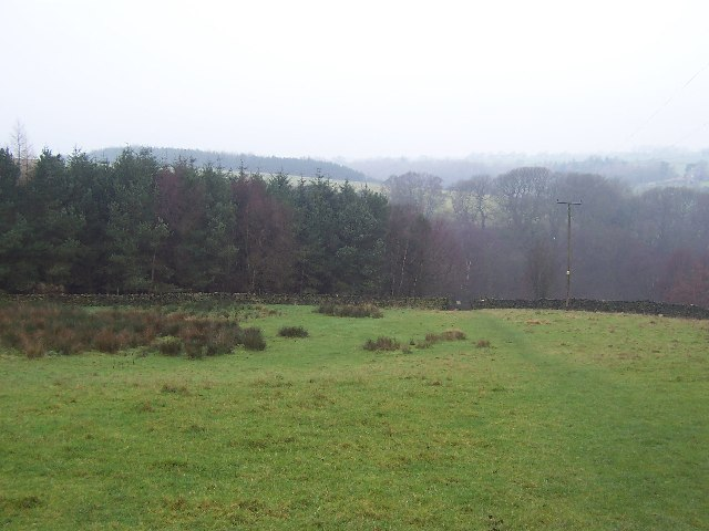 Low Scargill Plantation. Approaching the plantation from the south east, in Haverah Park.